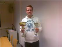 Tero Kalliolevo with the trophys in the Finnish Quizzing Championships 2010